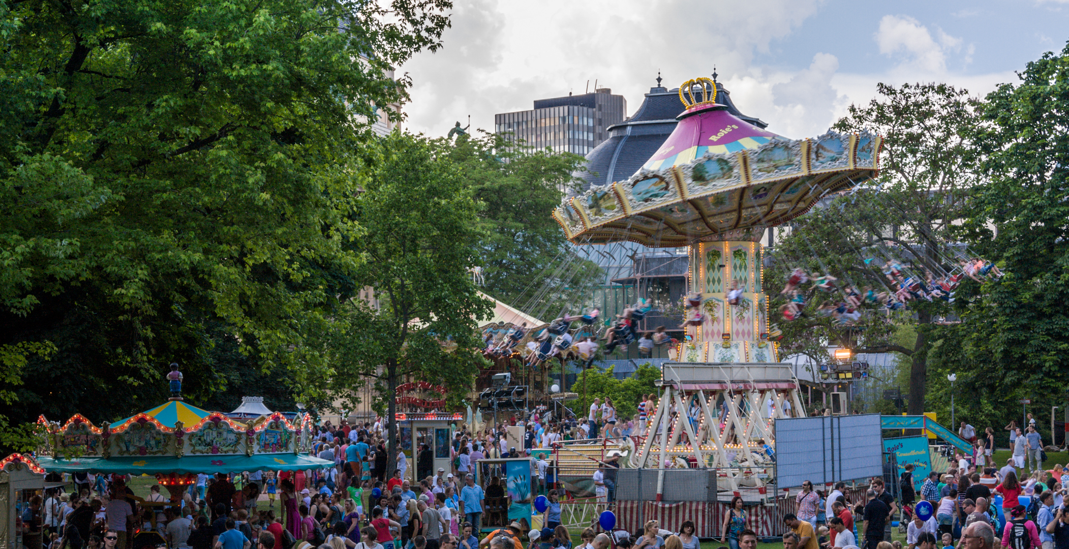 A Chair-O-Plane on the Wilhelmstrassenfest in Wiesbaden, Germany